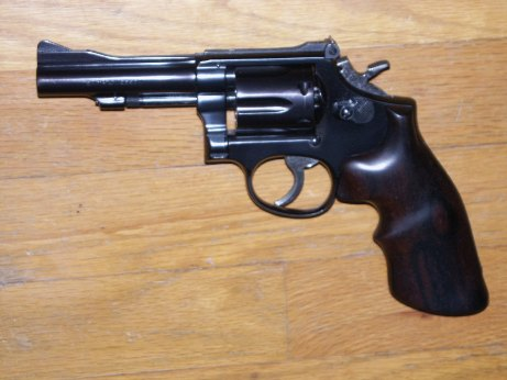 Smith & Wesson Combat Masterpiece 15-2 .38 Special